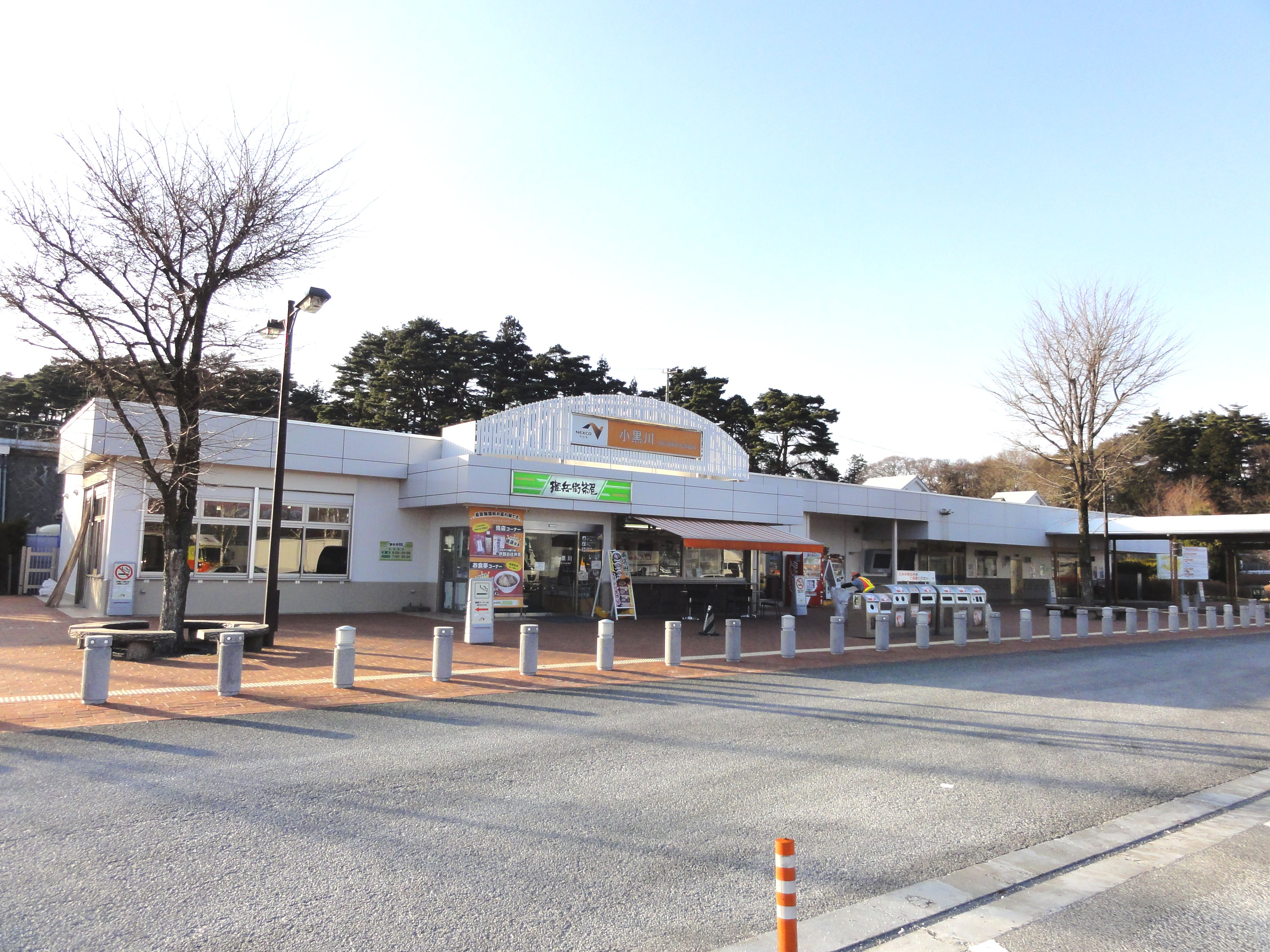 Ogurogawa Parking Area on the Chuo Expressway inbound line for Tokyo